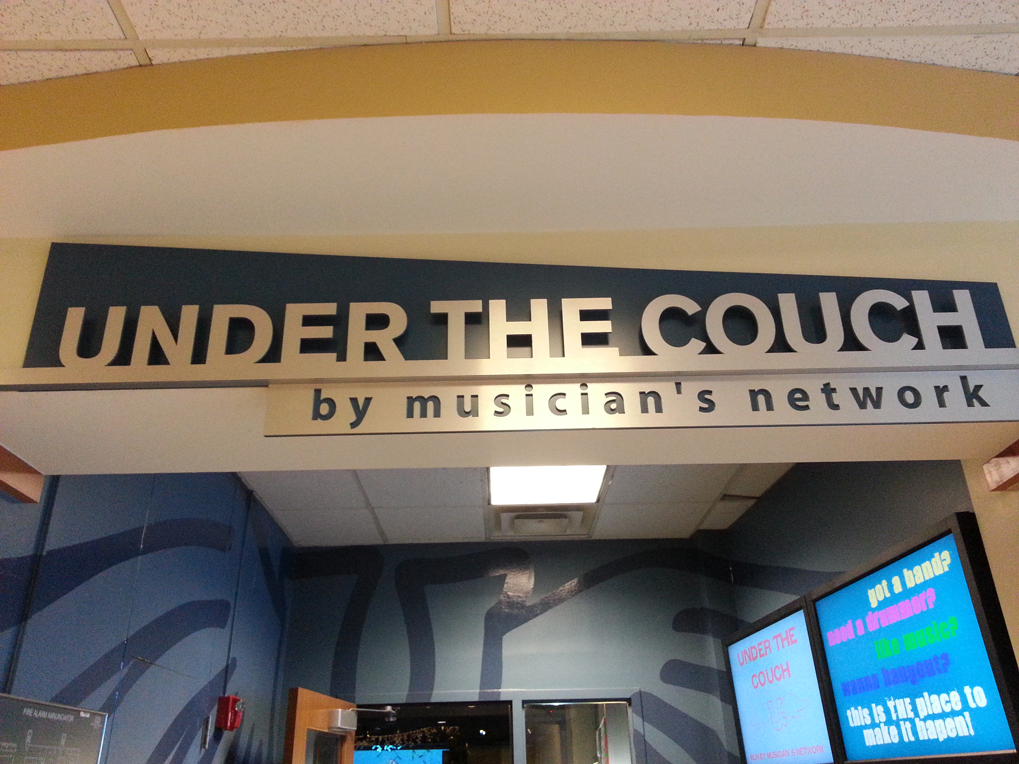 entrance to Under the Couch